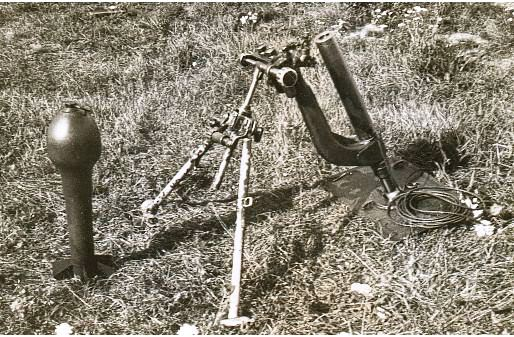 20cm leLdgW- german spigot mortar of WWII vintage in france